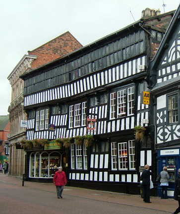 Crown Inn, High Street, Nantwich, Cheshire. Half timbered building